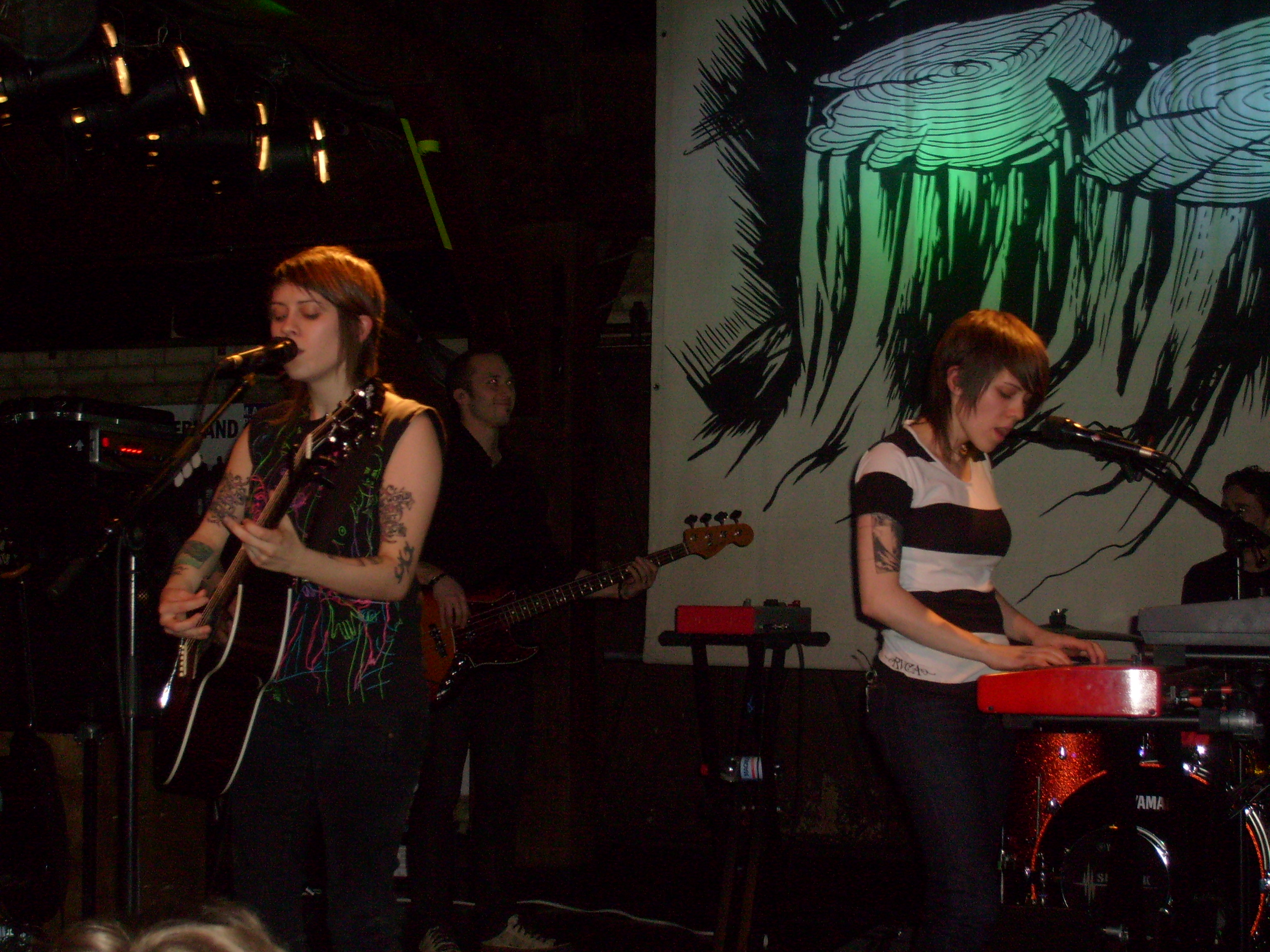 Tegan and Sara playing a show in Hamburg, Germany, on 9th of March.